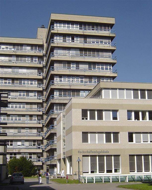 Johannes Kepler University, Linz, Austria. TNF-Tower, so called "Hochschulfonds"-Building